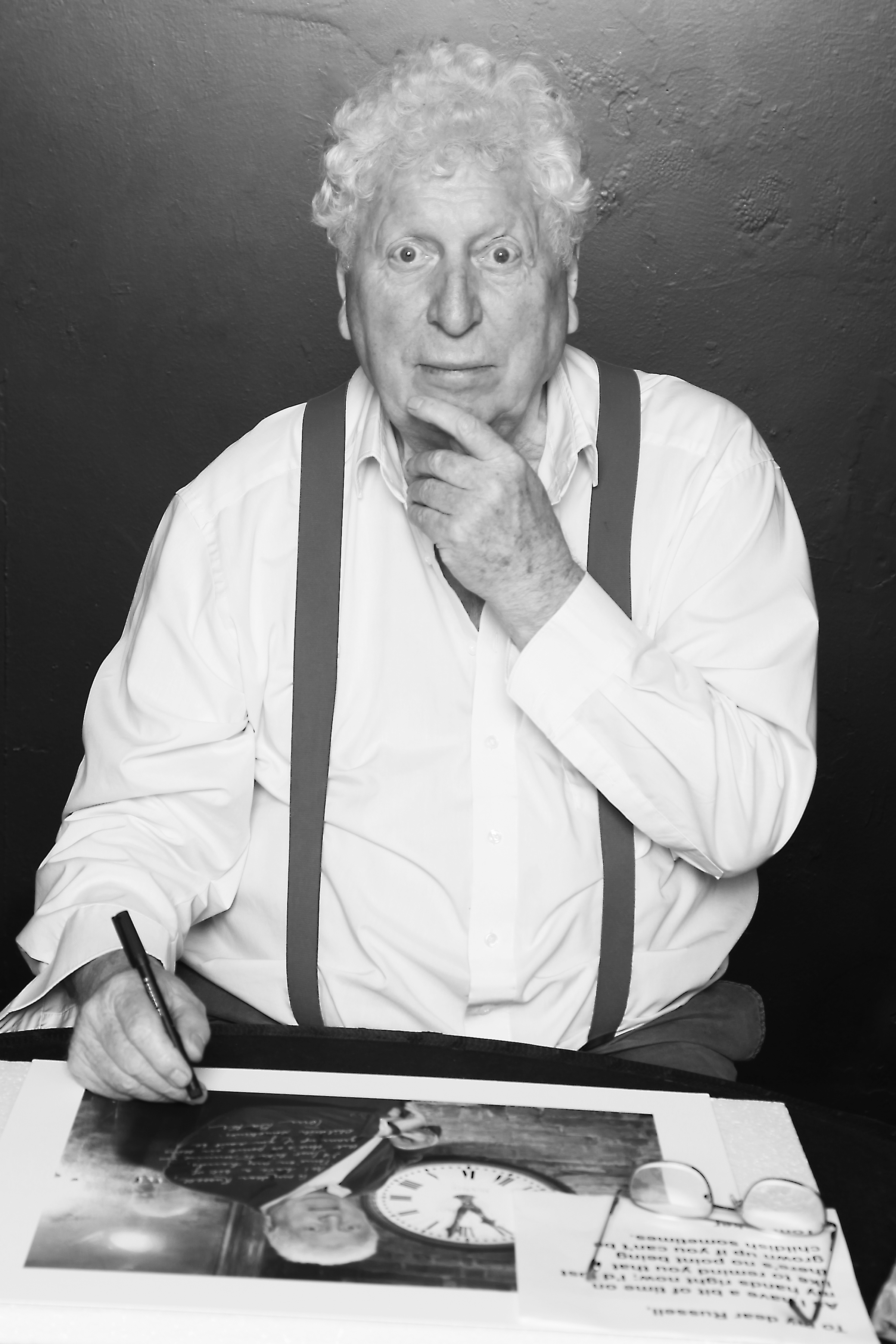 Tom Baker